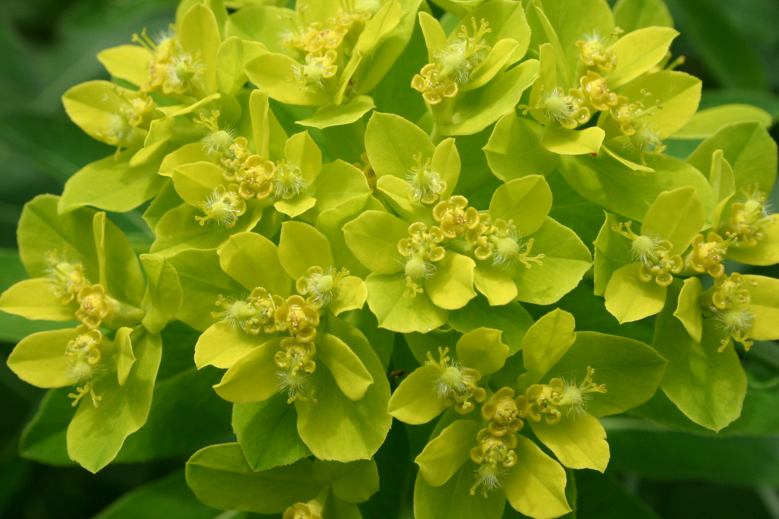 Euphorbia austriaca